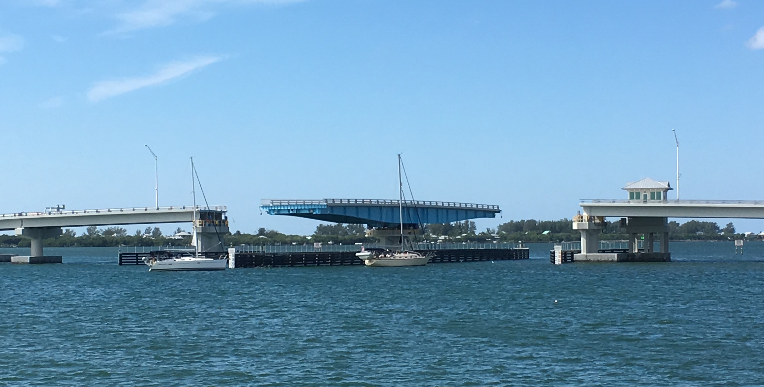 The new Boca Grande Swing Bridge open for vessel traffic. This bridge opened for road traffic on January 5, 2016, and replaced a similar swing bridge located adjacent.